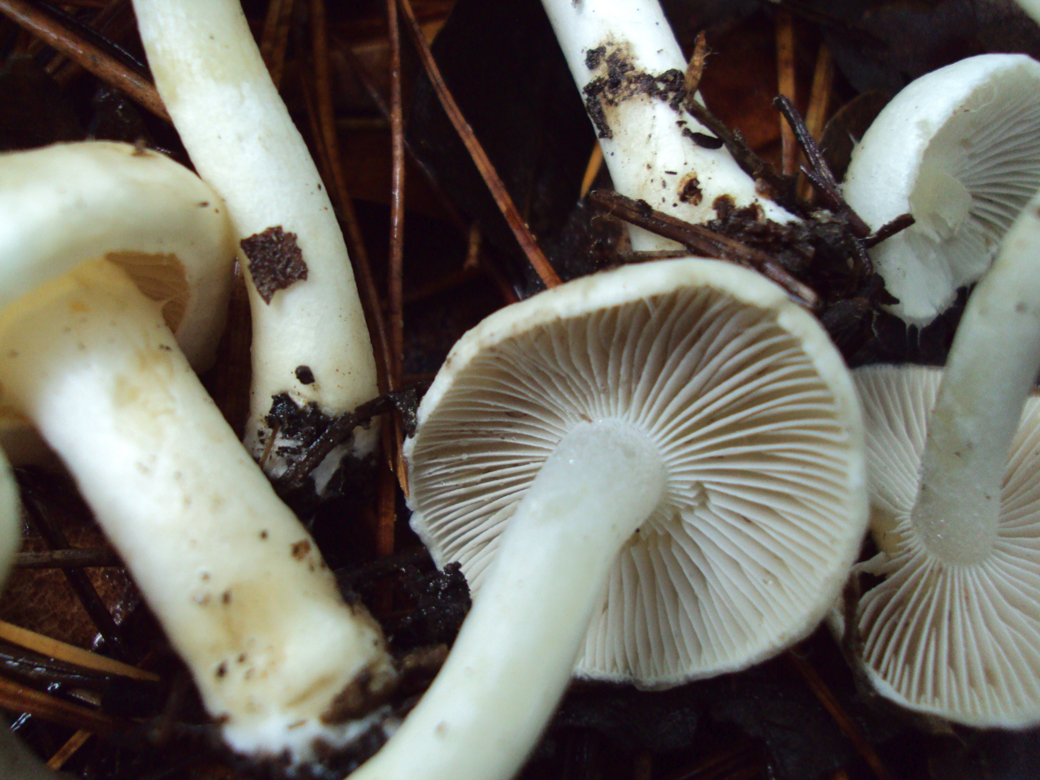 Inocybe geophylla (Pers.) P. Kumm. Image location: San Pablo Reservoir, Contra Costa Co., California, USA Can’t be Hebeloma with pleurocystidia, Hebeloma doesn’t have pleurocystidia. The spores weren’t quite right for Hebeloma either. The cap surface doesn’t appear to have hyphae in a gelatin matrix, just a cutis of fibrous hyphae. These look like Inocybe. I believe the only off-white Inocybe in California is just I. geophylla. Recognized by sight Based on microscopic features For more information about this, see the observation page at Mushroom Observer.